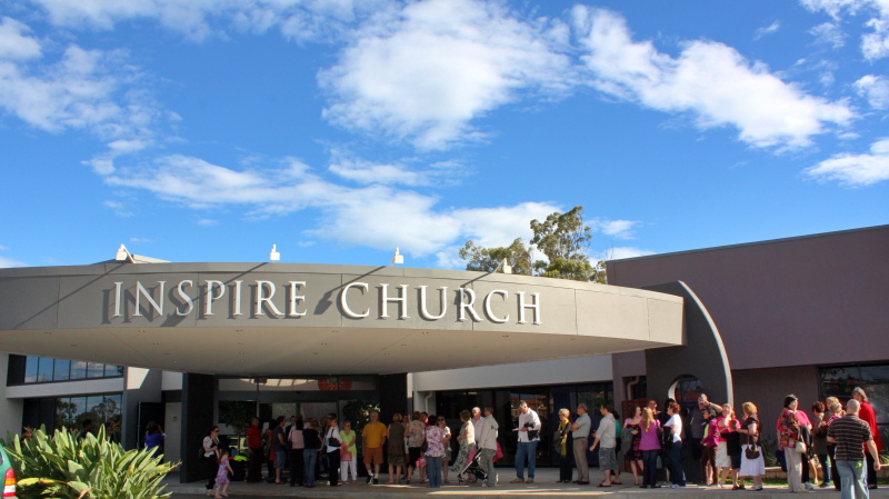 Inspire Church Christmas Production 2008